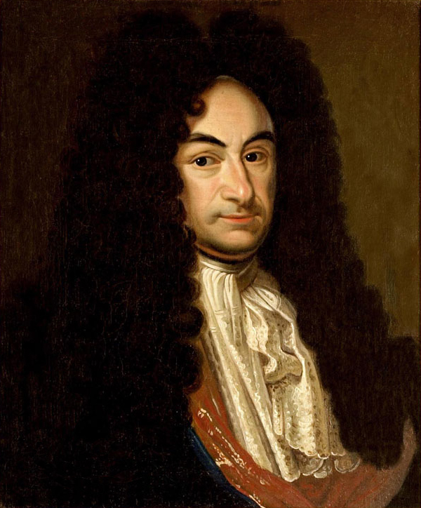 A portrait of Gottfried Wilhelm von Leibniz - Public Library of Hannover (Lower Saxony).